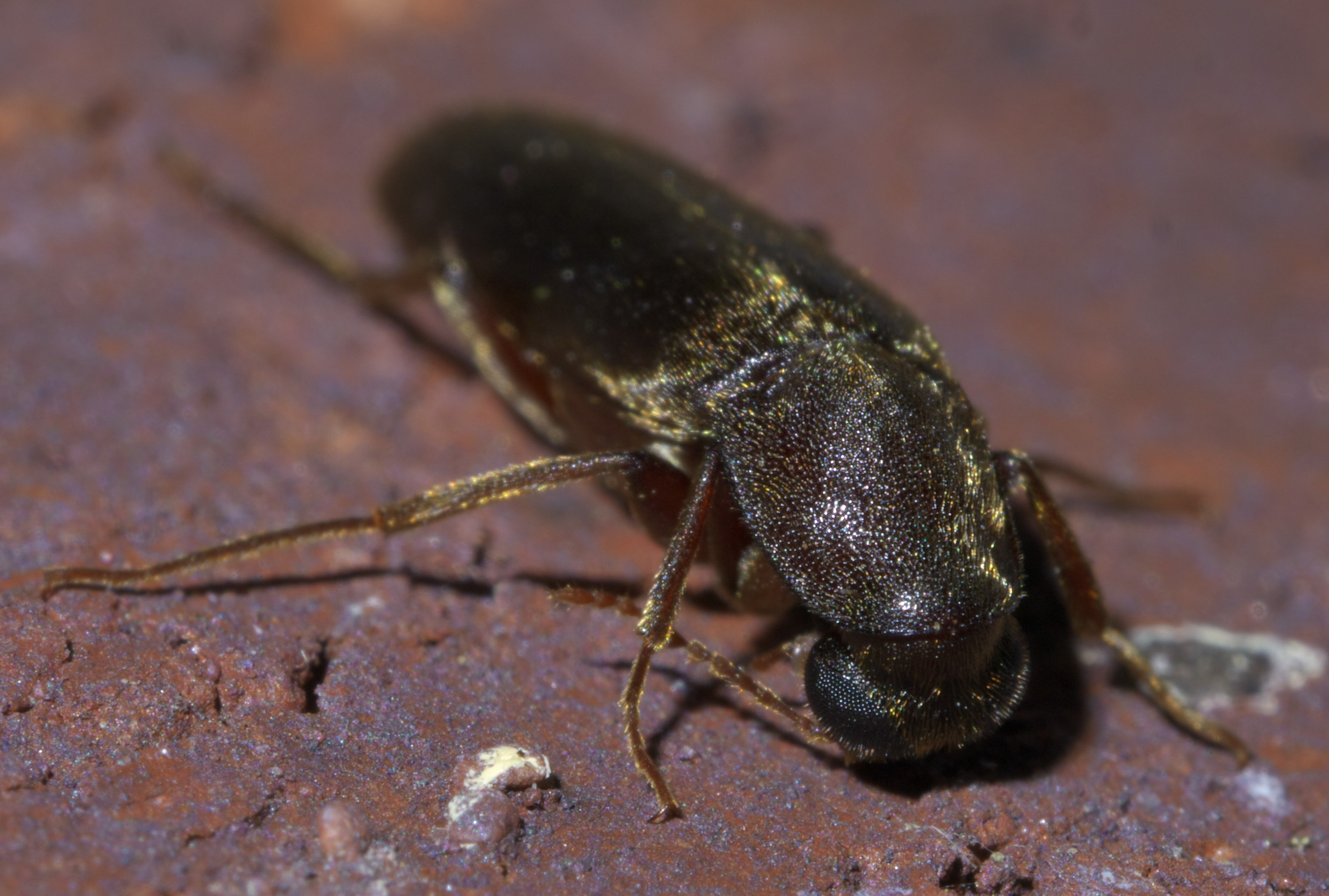 Melittomma sericeum, Chestnut Timberworm, ID Confidence: 97